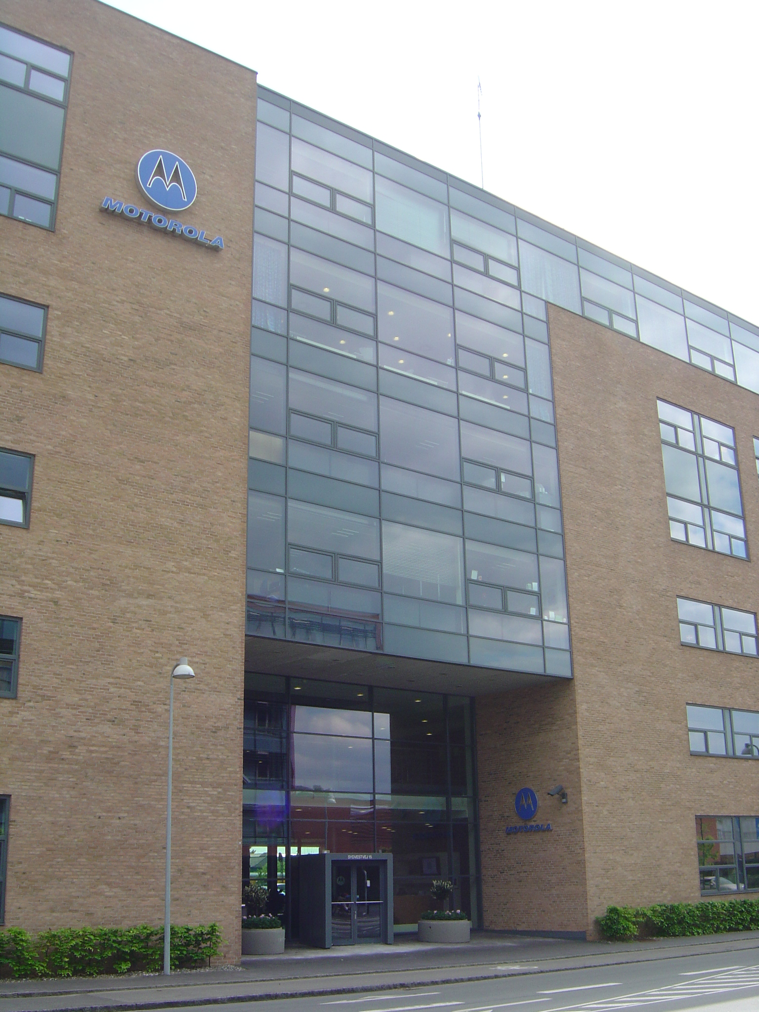 Motorola Denmark - The office-buildings for the local branch (N&E – Networks & Enterprise) in Denmark located close to Glostrup station.